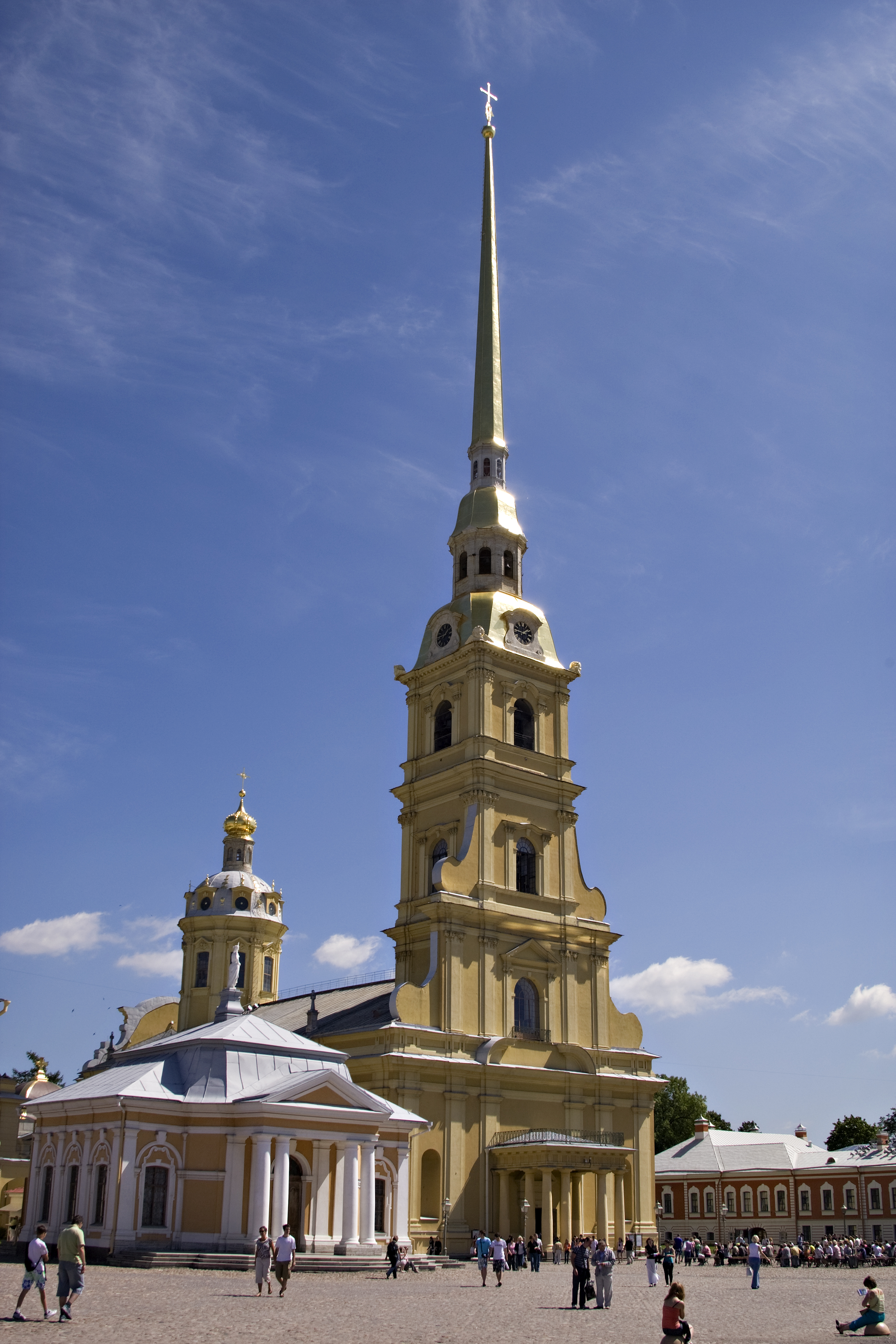 Exterior view of Saint Peter and Paul Cathedral, St Petersburg, Russia